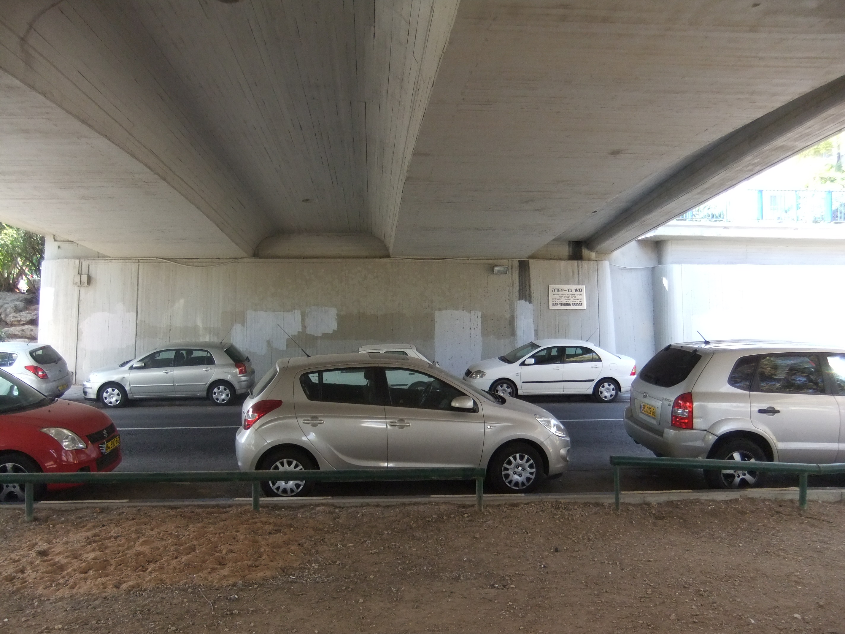 Bar-Yehuda bridge, memorial plaque